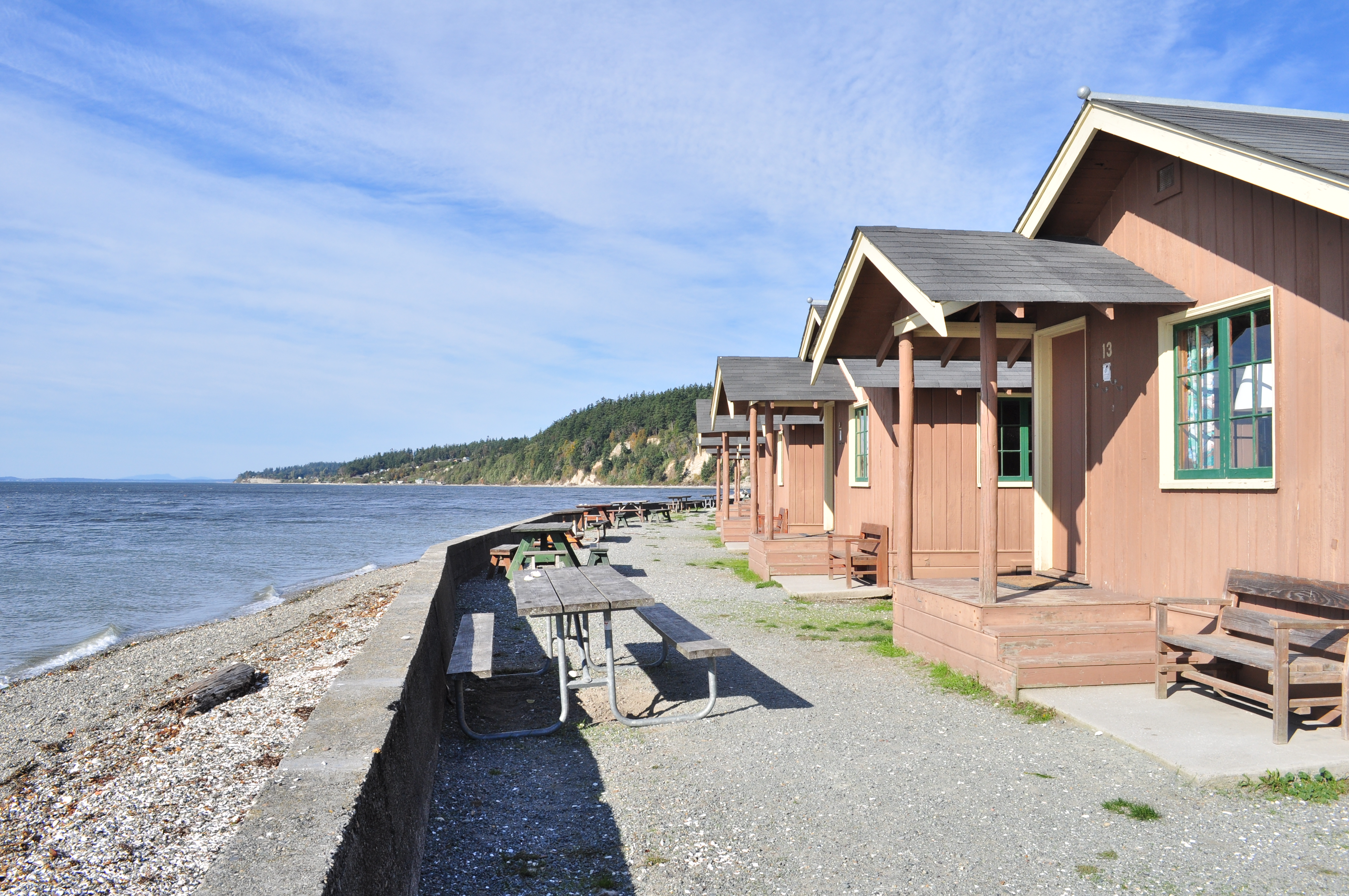 Rental cabins, some of the historic Cama Beach Resort buildings, Cama Beach State Park, Washington (state), U.S.